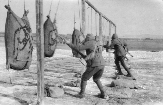 Three Australian soldiers practising bayonet attacks on hessian bags stuffed with straw suspended from wooden beams a training camp in England. The soldiers are wearing Phenate Hexamine helmets.